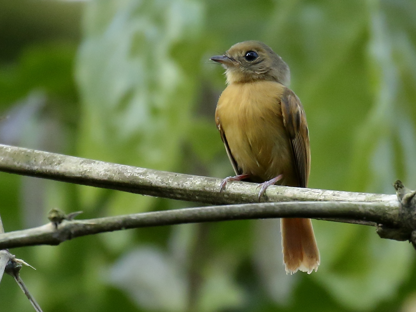 Ruddy-tailed flycatcher; Rio Branco, Acre, Brazil